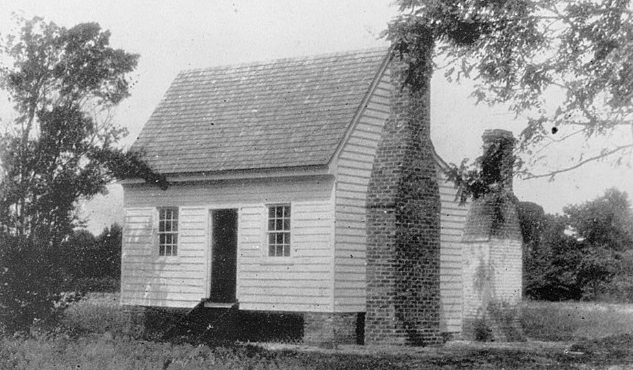 Dr. Walter Reed House, State Routes 614 & 616, Gloucester vicinity (Gloucester County, Virginia) cropped This file comes from the Historic American Buildings Survey (HABS), Historic American Engineering Record (HAER) or Historic American Landscapes Survey (HALS). These are programs of the National Park Service established for the purpose of documenting historic places. Records consist of measured drawings, archival photographs, and written reports. When reusing please credit: Library of Congress, Prints & Photographs Division, VA,37-BEL,1-1 This tag does not indicate the copyright status of the attached work. A normal copyright tag is still required. See Commons:Licensing for more information. This work is in the public domain in the United States because it is a work prepared by an officer or employee of the United States Government as part of that person’s official duties under the terms of Title 17, Chapter 1, Section 105 of the US Code. See Copyright. Note: This only applies to original works of the Federal Government and not to the work of any individual U.S. state, territory, commonwealth, county, municipality, or any other subdivision. This template also does not apply to postage stamp designs published by the United States Postal Service since 1978. (See § 313.6(C)(1) of Compendium of U.S. Copyright Office Practices). It also does not apply to certain US coins; see The US Mint Terms of Use. This file has been identified as being free of known restrictions under copyright law, including all related and neighboring rights.